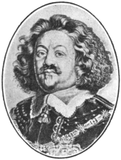 Ottavio Piccolomini